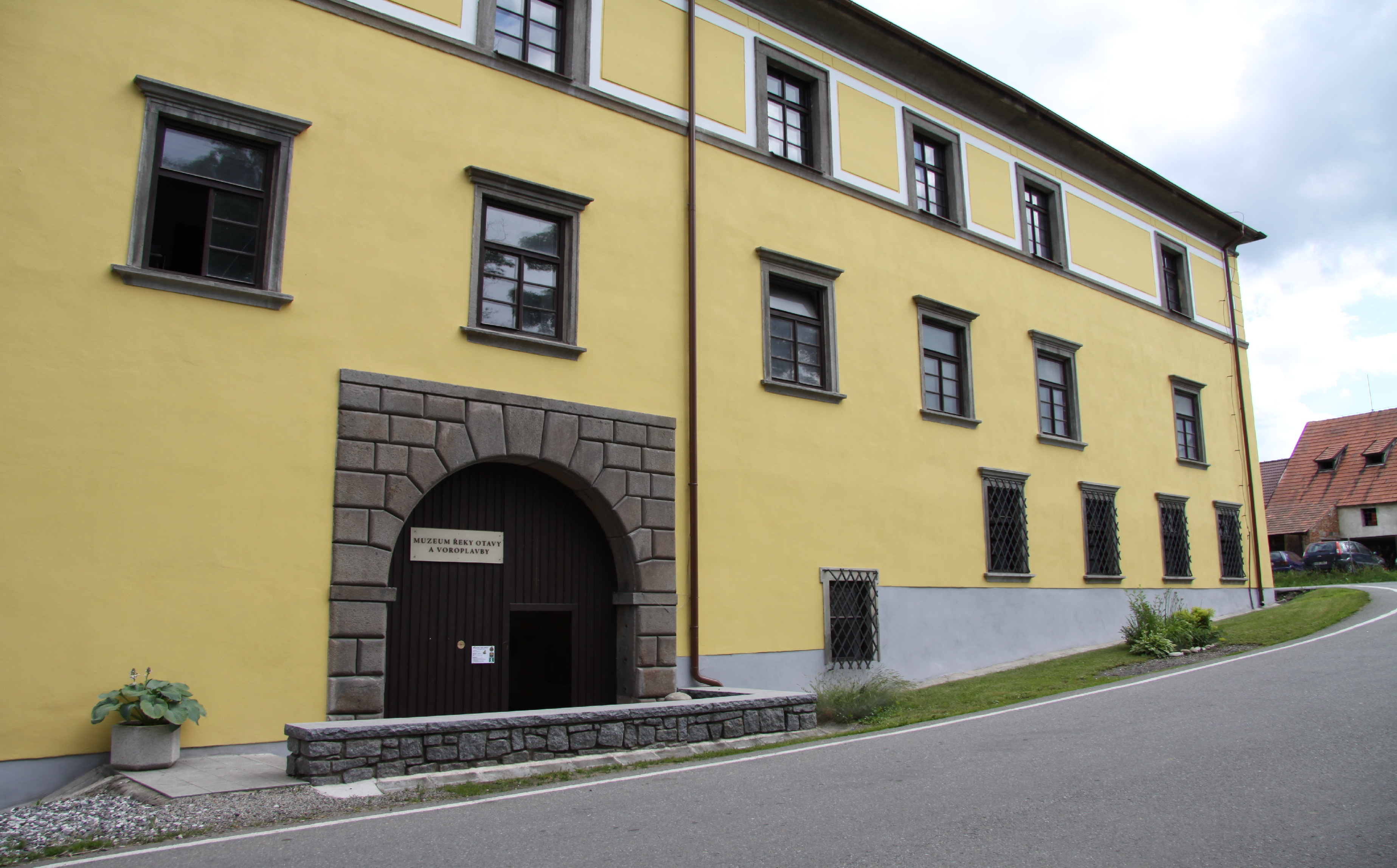 Střelské Hoštice village in Strakonice District, Czech Republic. Château, entrance to the museum of wodden rafting. This photograph was taken within the scope of the 'Czech Municipalities Photographs' grant.